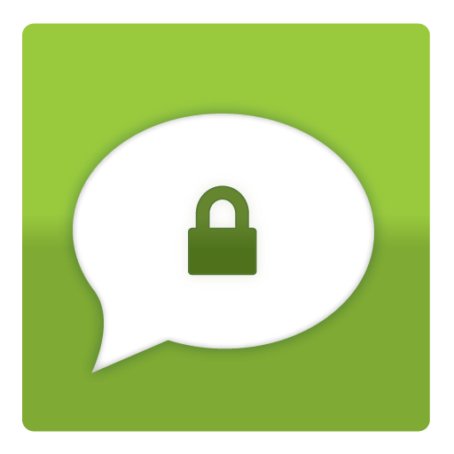 The logo of the TextSecure application for Android as it appeared from when it was launched in May 2010 to February 2014, when the new logo was taken into use.